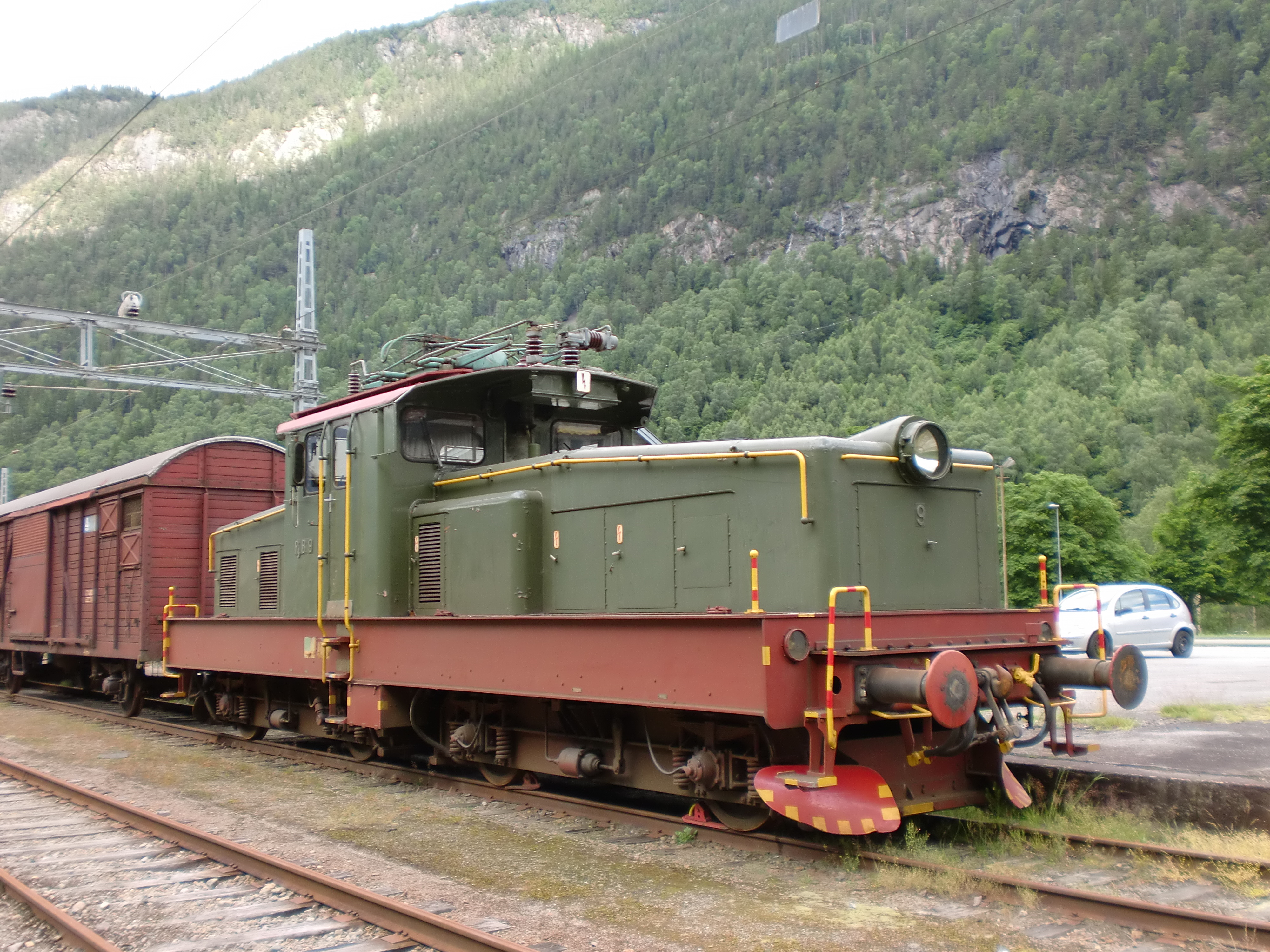 The locomotive Rj.B (Rjukanbanen, the Rjukan line) 9 at Rjukan station.